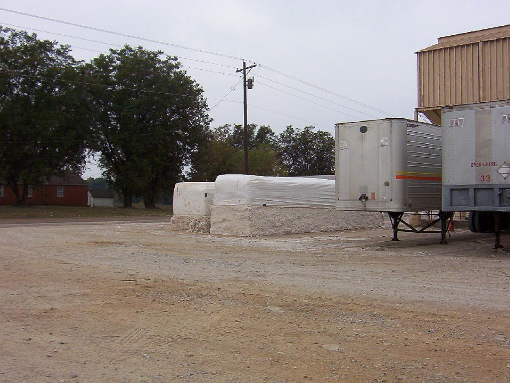 Photo of a cotton processing plant in Nutbush, Tennessee, USA.